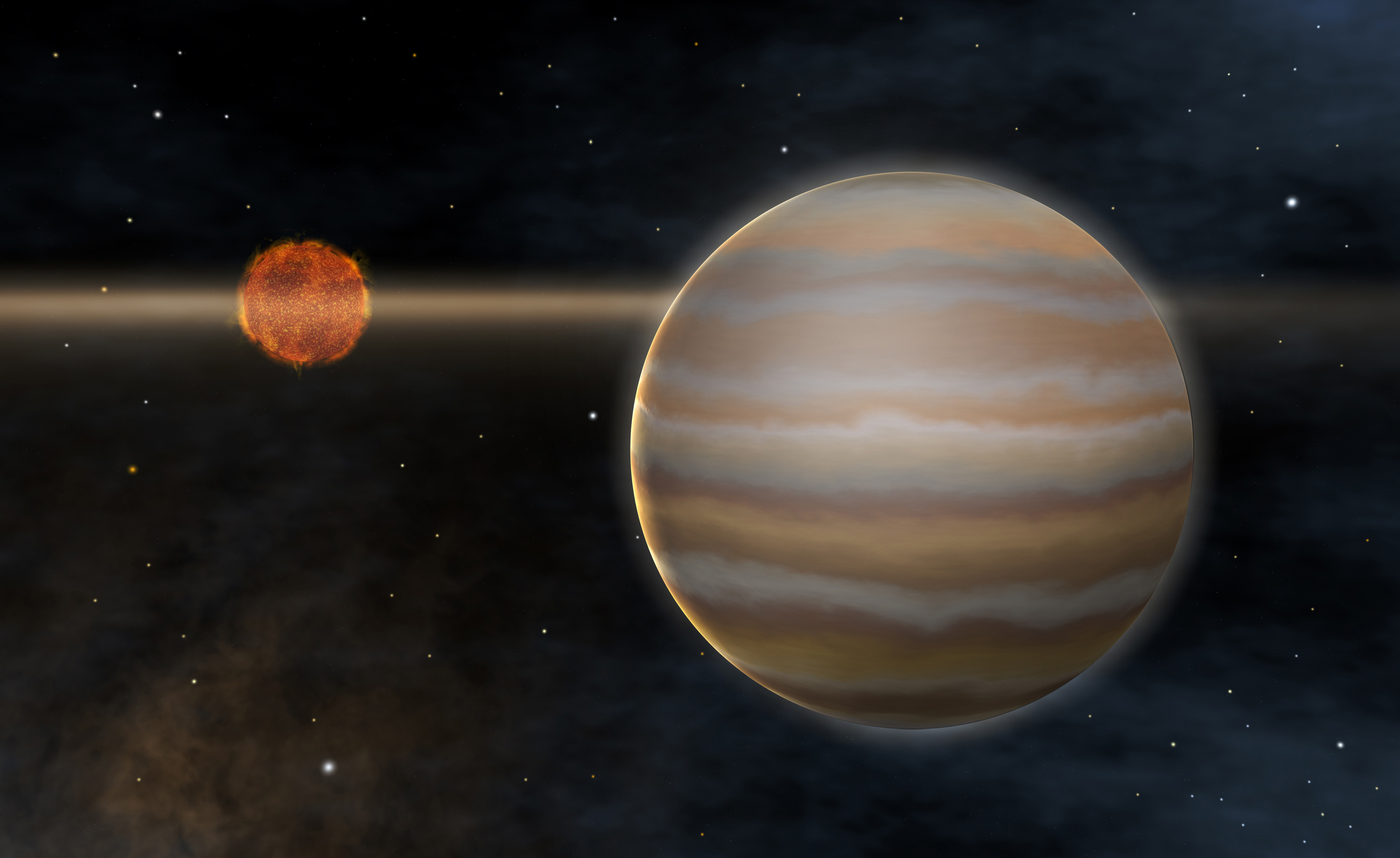 Artist's rendering of the first planet outside of our solar system to be imaged orbiting a brown dwarf (right). The giant planet is approximately five times the mass of Jupiter. Both objects are believed to be very young, less than 10 million years old. The brown dwarf is still surrounded by a circumstellar disc